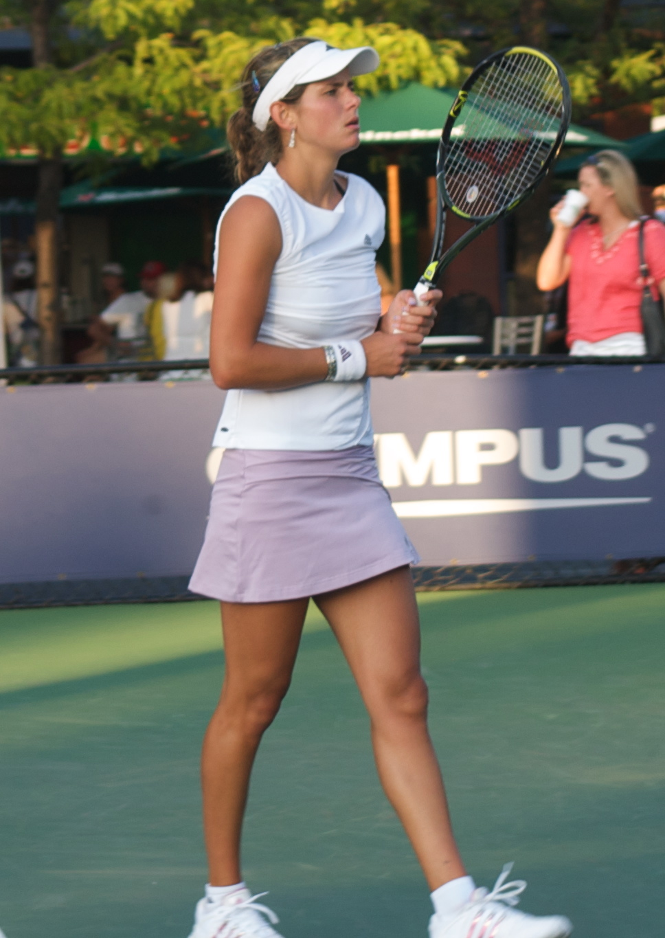 Julia Goerges at the 2008 US Open – Women's Singles